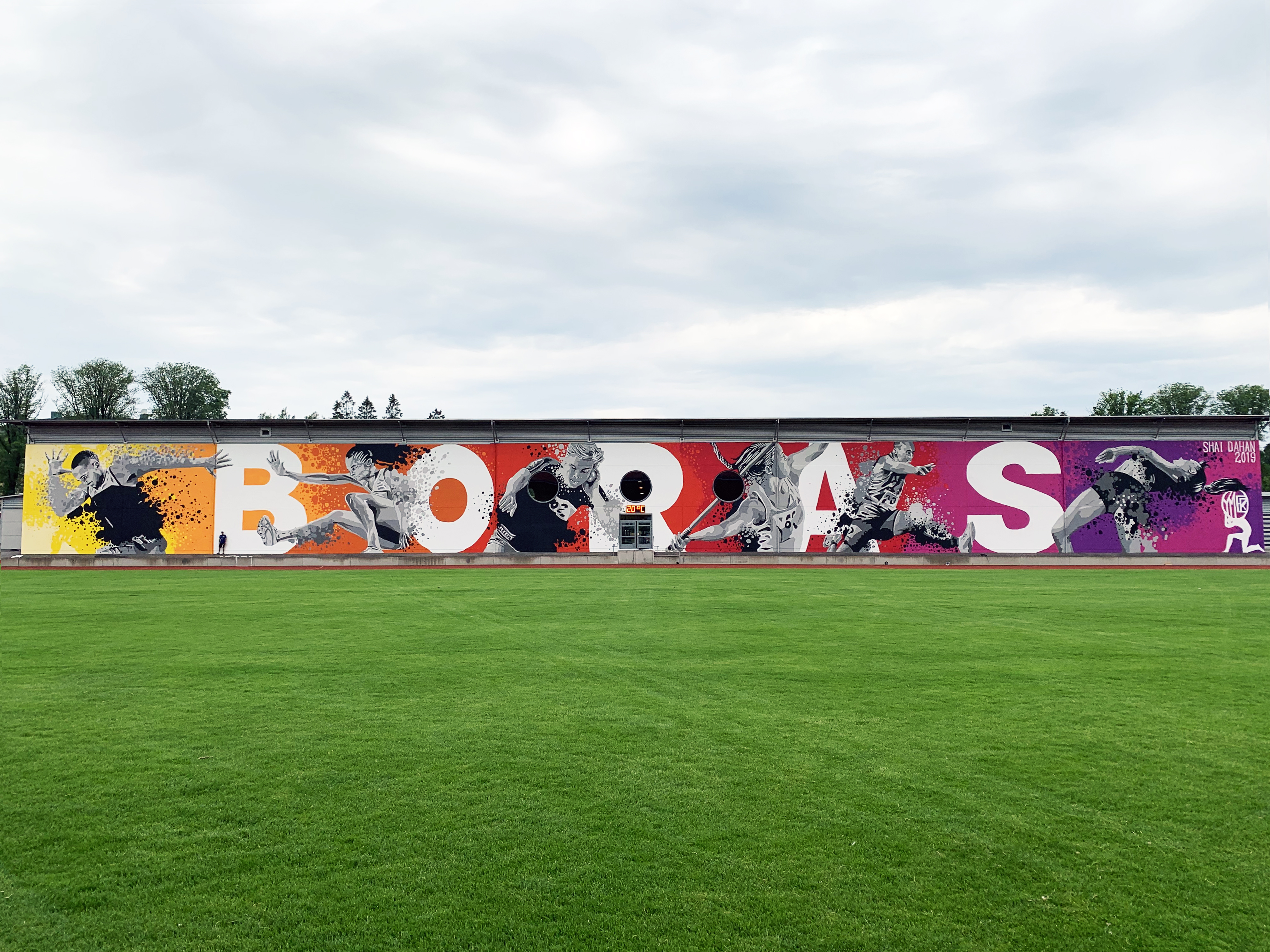 Photo of Swedens Largest mural painted by Shai Dahan for the European Athletics Championship U20 in the city of Borås in 2019.